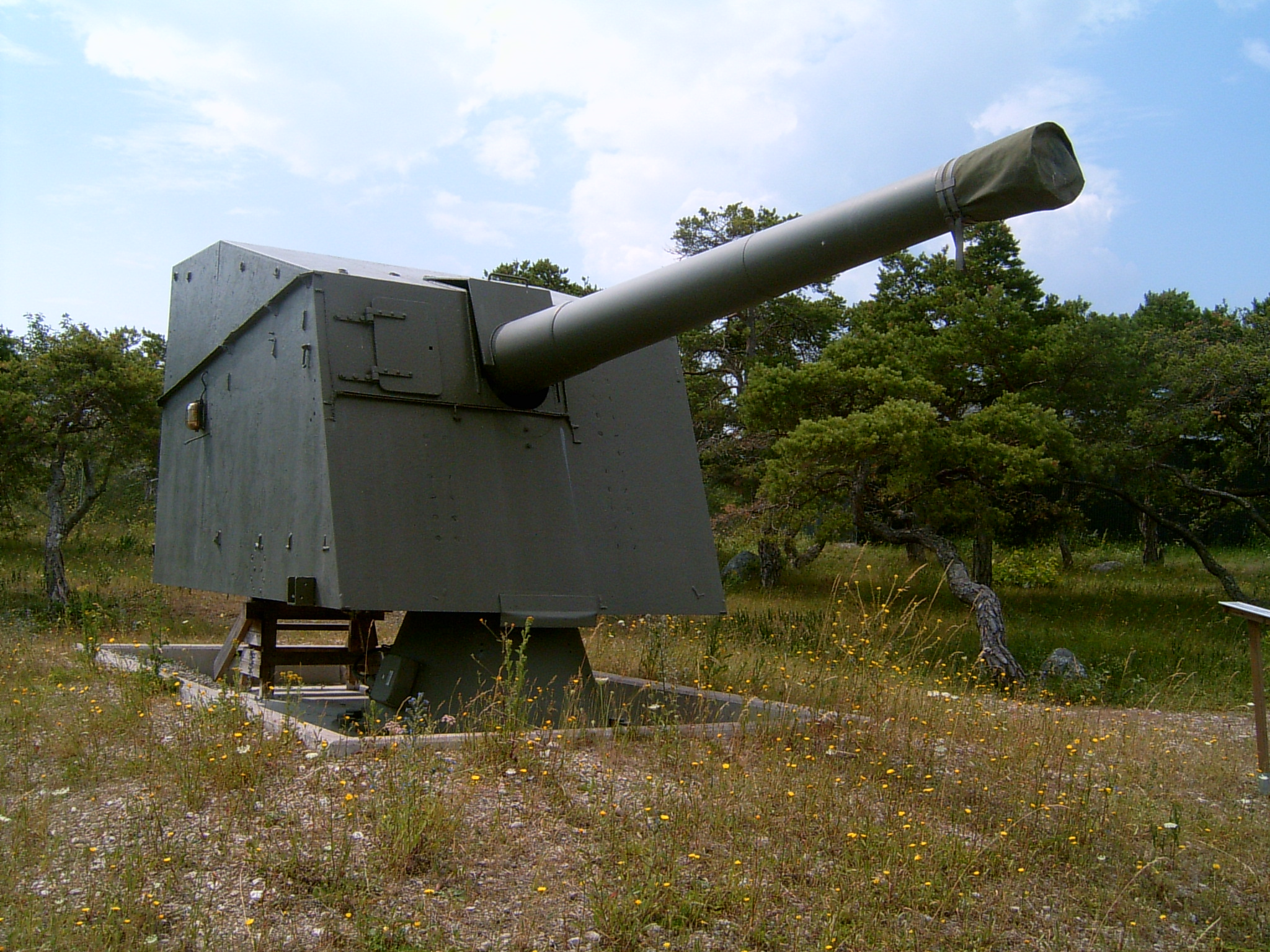 A Swedish artilleri called 15,2 cm Kanon m/98 in Fårösund, northern Gotland, Sweden.